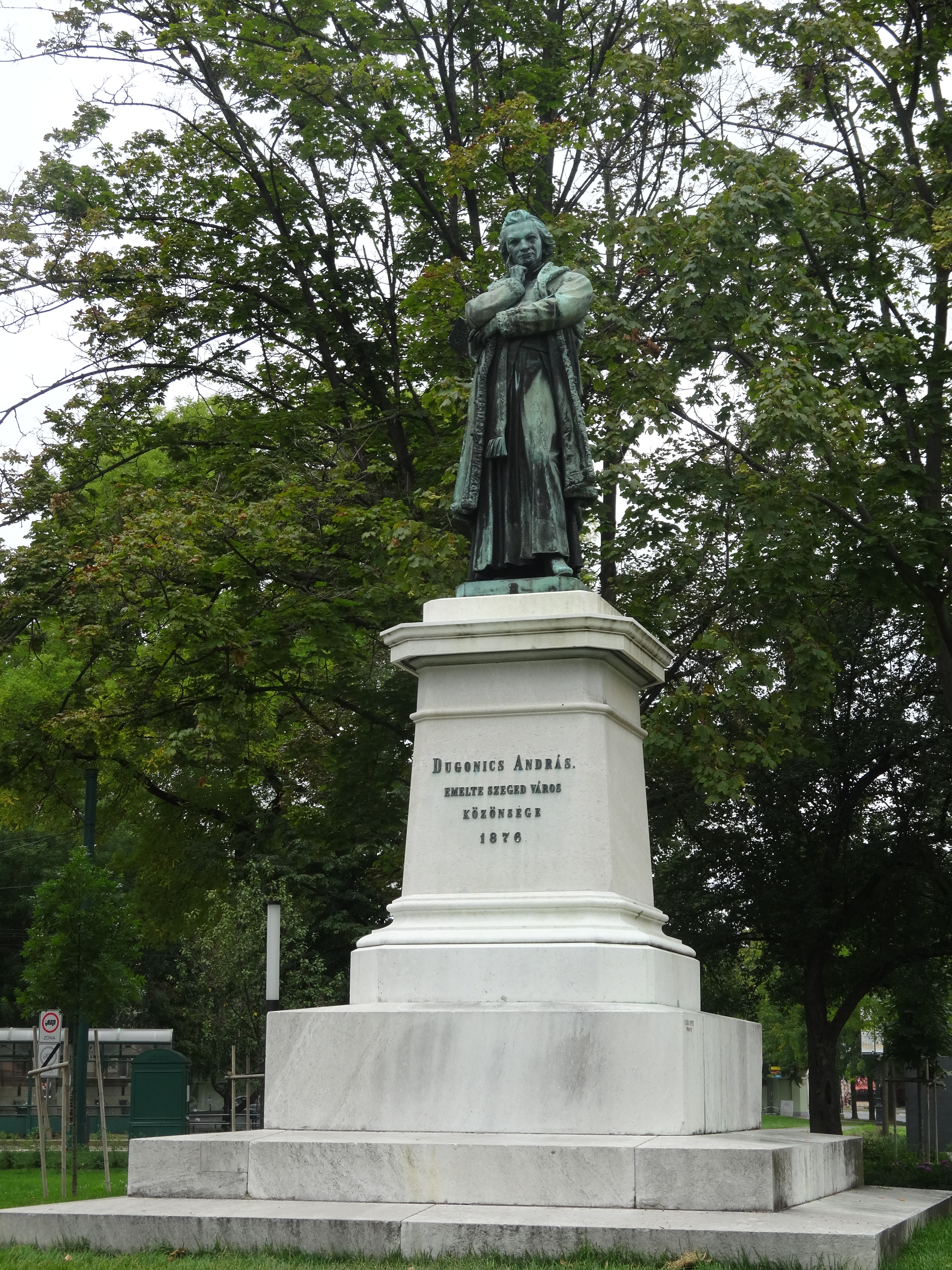 Andras Dugonics Monument, Szeged